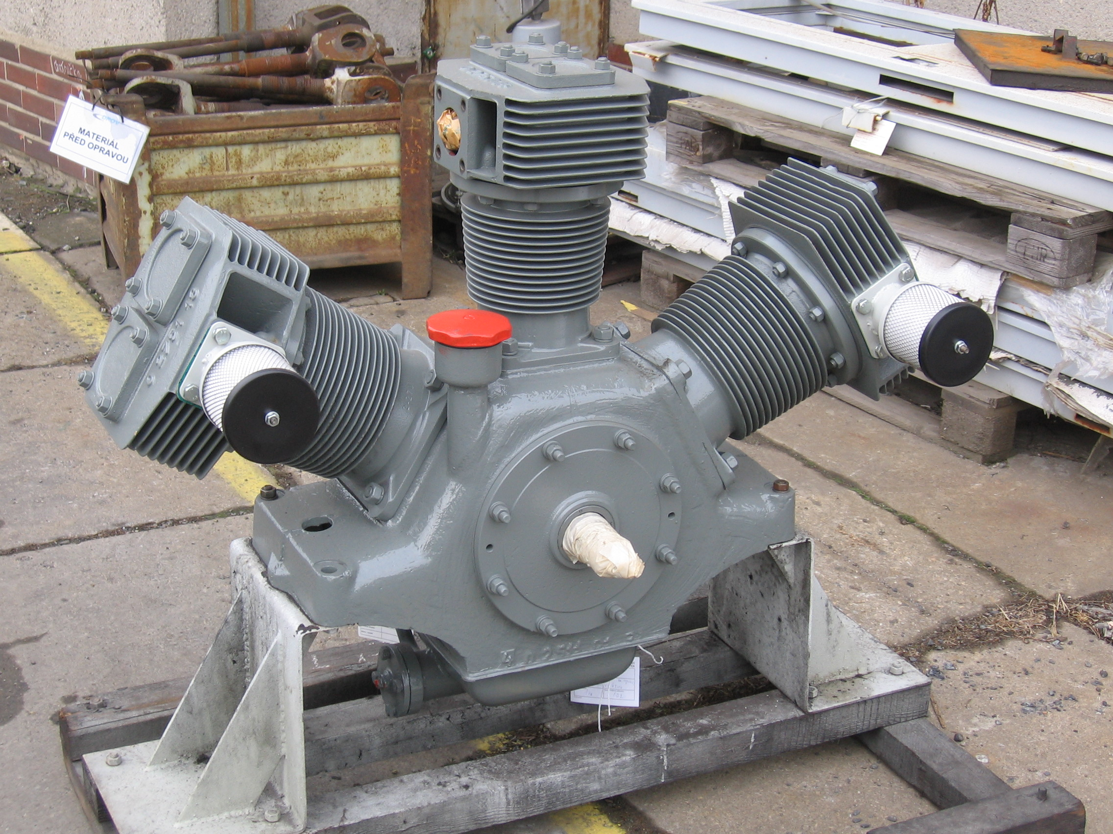 Compressor K 2 LOK used on most of Czech electric locomotives